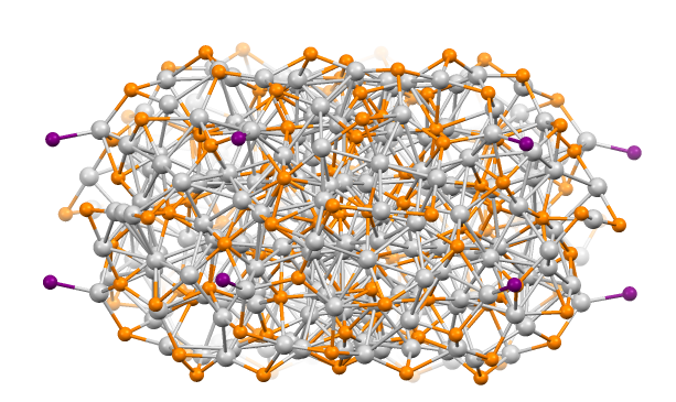 Ag-S-SPh-Phosphine nanocluster. as described in doi 10.1002SLASHanie.200352351